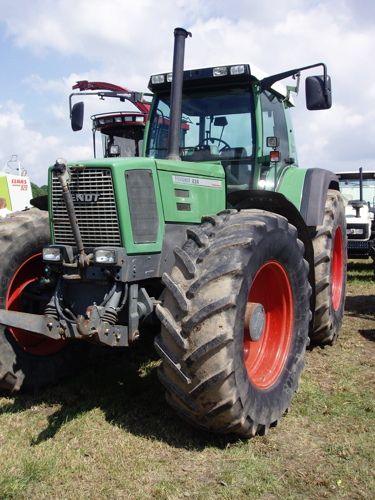 Fendt Favorit 824 Turboshift with a front three-point hitch